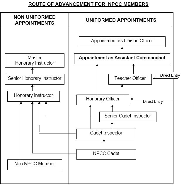 Diagram depicting route of advancement for NPCC members.